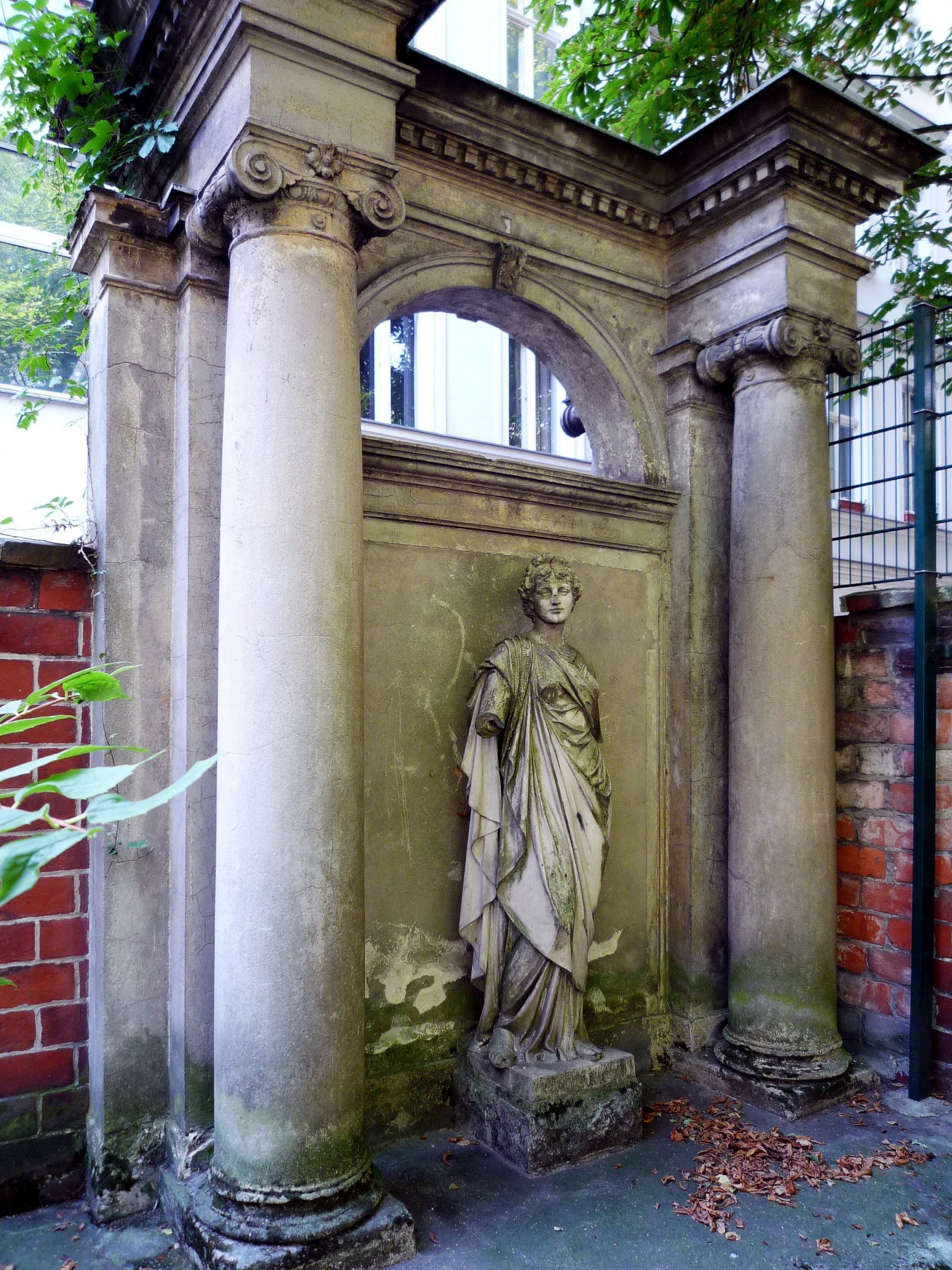 Columns and statue in a court-yard at Motzstrasse 8 near Nollendorfplatz in Berlin.